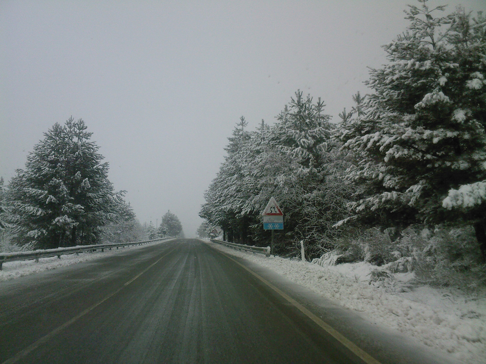 SS 107 - Italian highway